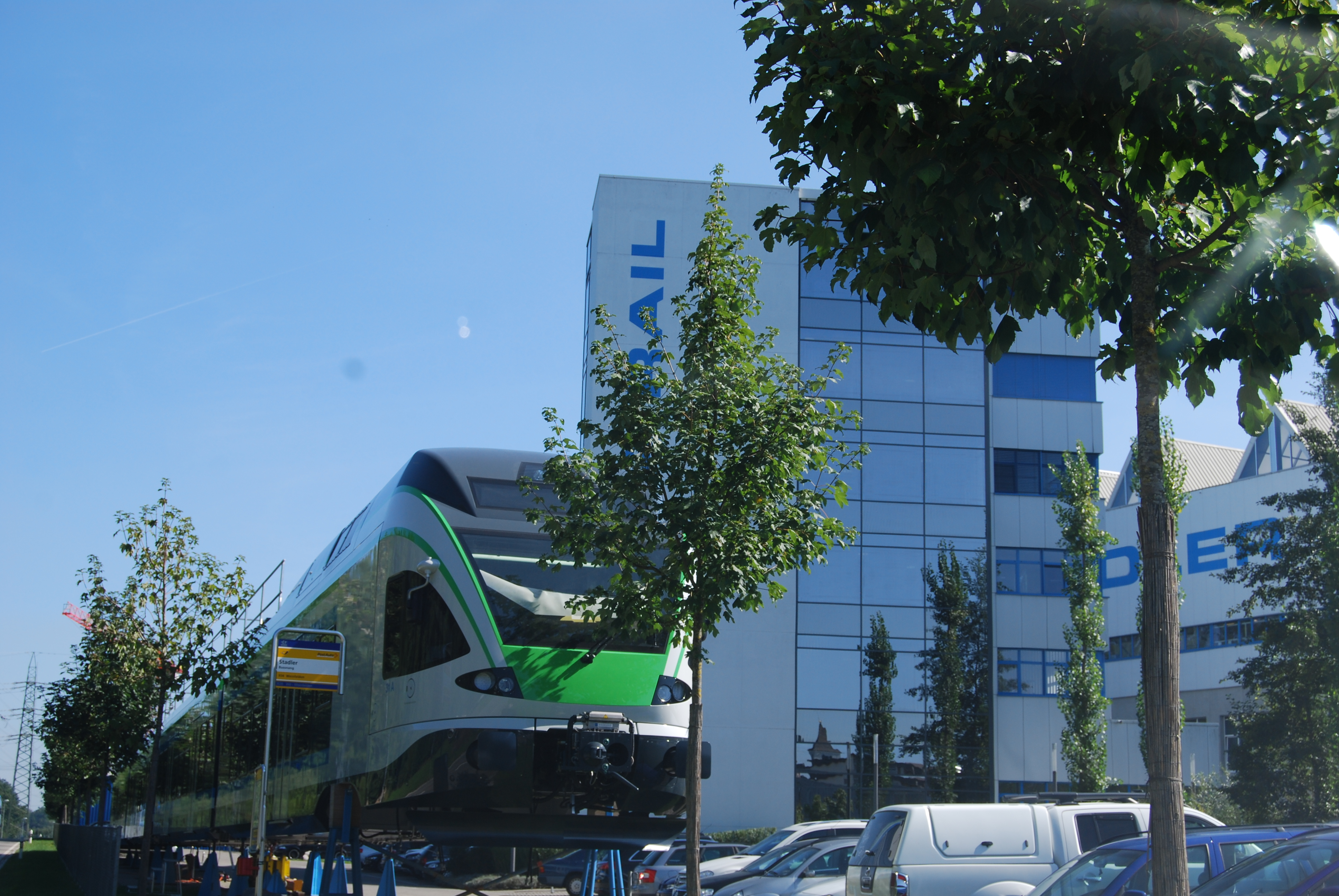 Bussnang, canton of Thurgovia, Switzerland